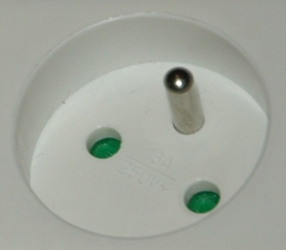 2 French extension leads, one with 5 sockets, one with 6 sockets.